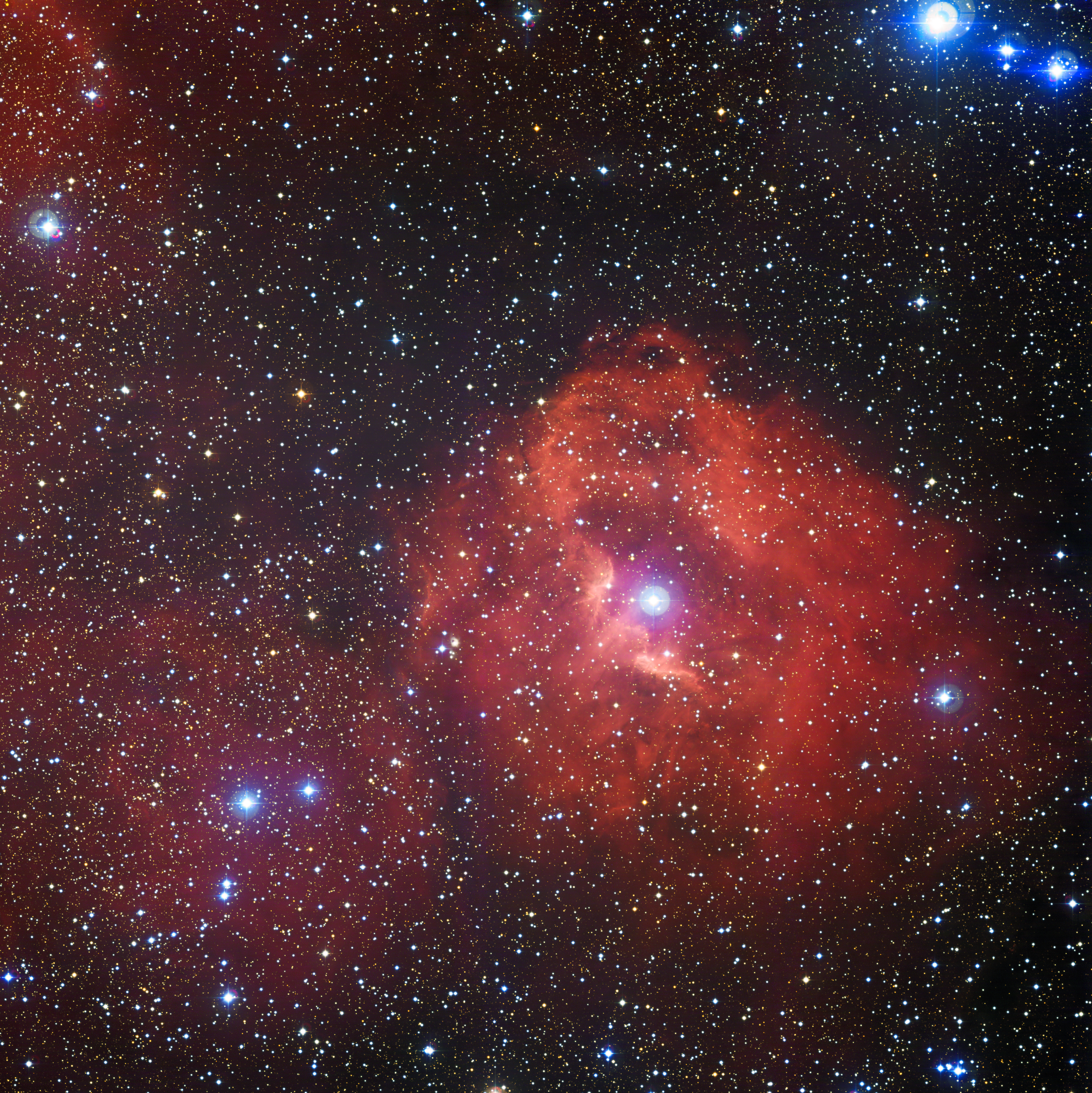 This new image from the Wide Field Imager (WFI) on the MPG/ESO 2.2-metre telescope at the La Silla Observatory in Chile reveals a cloud of hydrogen and newborn stars called Gum 41. In the middle of this little-known nebula, brilliant hot young stars emit energetic radiation that causes the surrounding hydrogen to glow with a characteristic red hue.